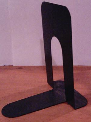 A black metal bookend.